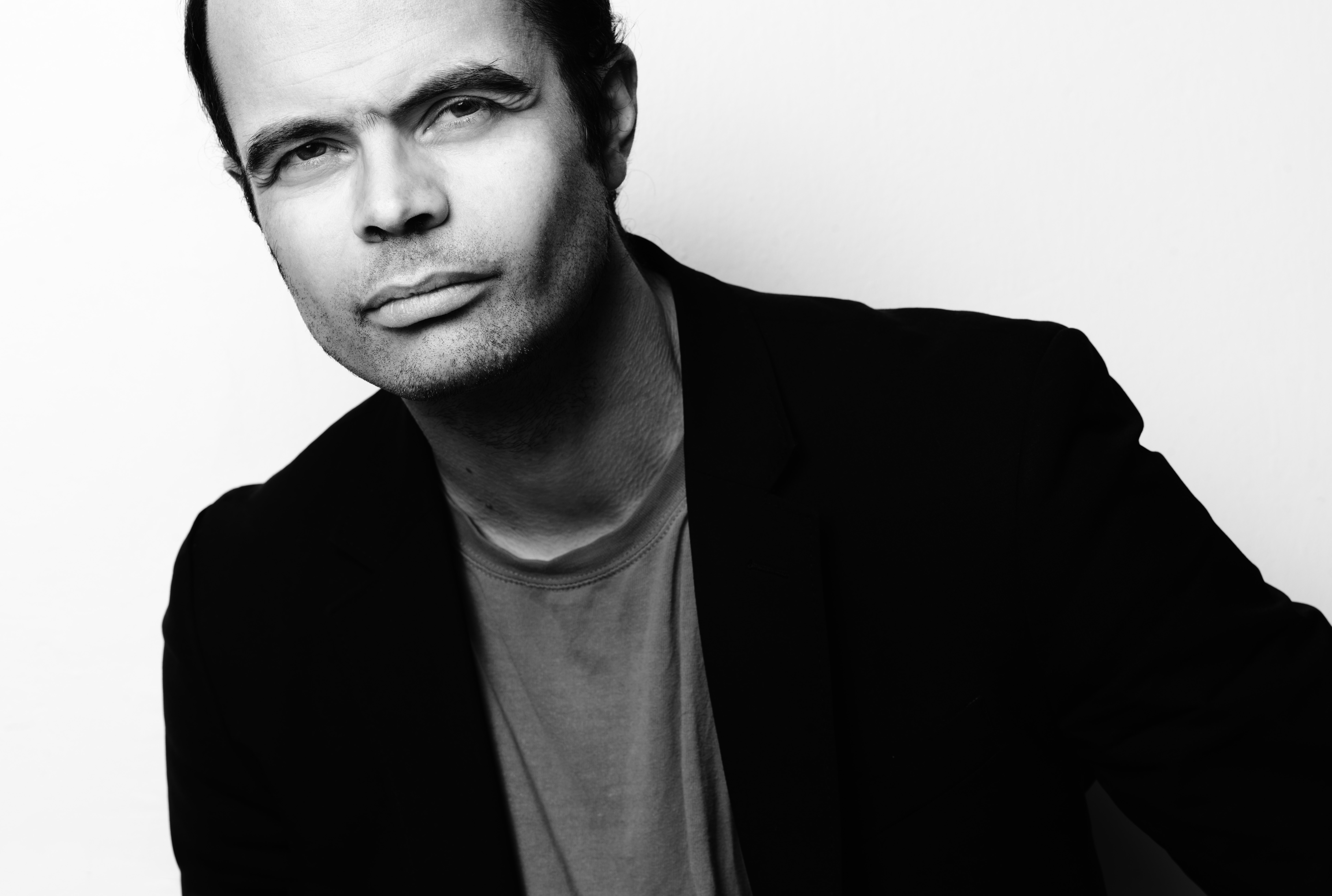 Hans Olav Lahlum in 2011